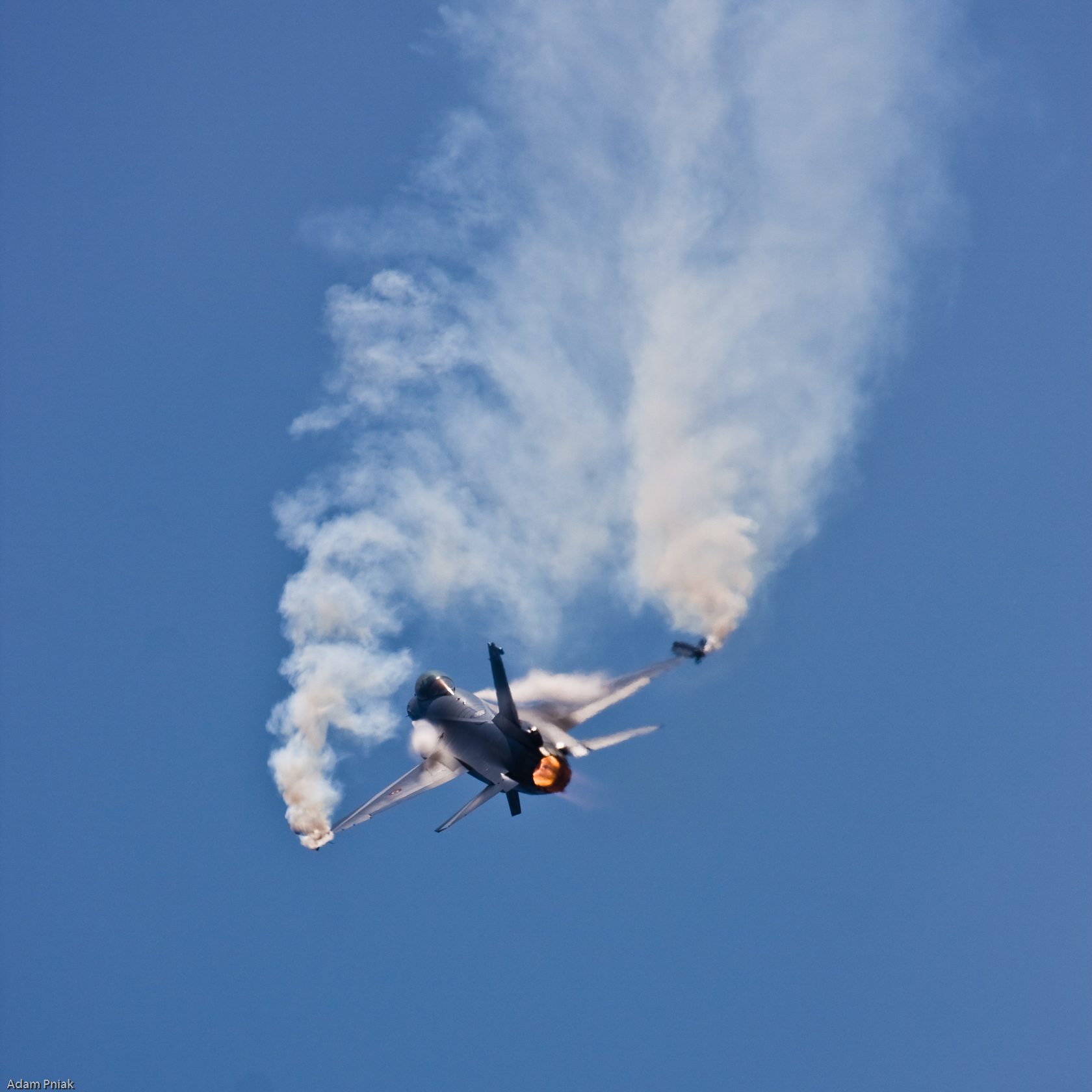 Belgian F-16